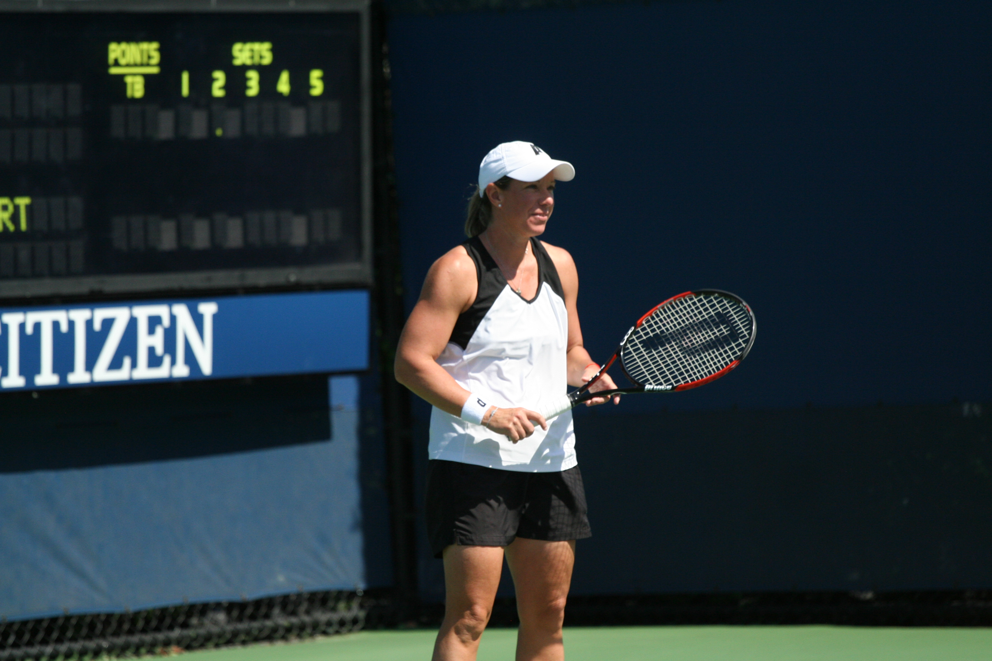 U.S. Open Practice, Sept. 7, 2010